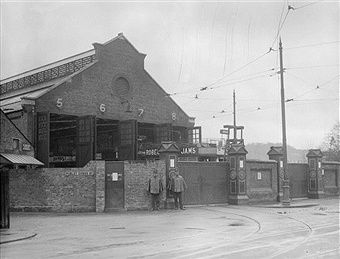 Two policemen guarding the Croydon Corporation Tramways depot on Purley Downs Road, south London, during the Croydon tram strike. April 01, 1916.